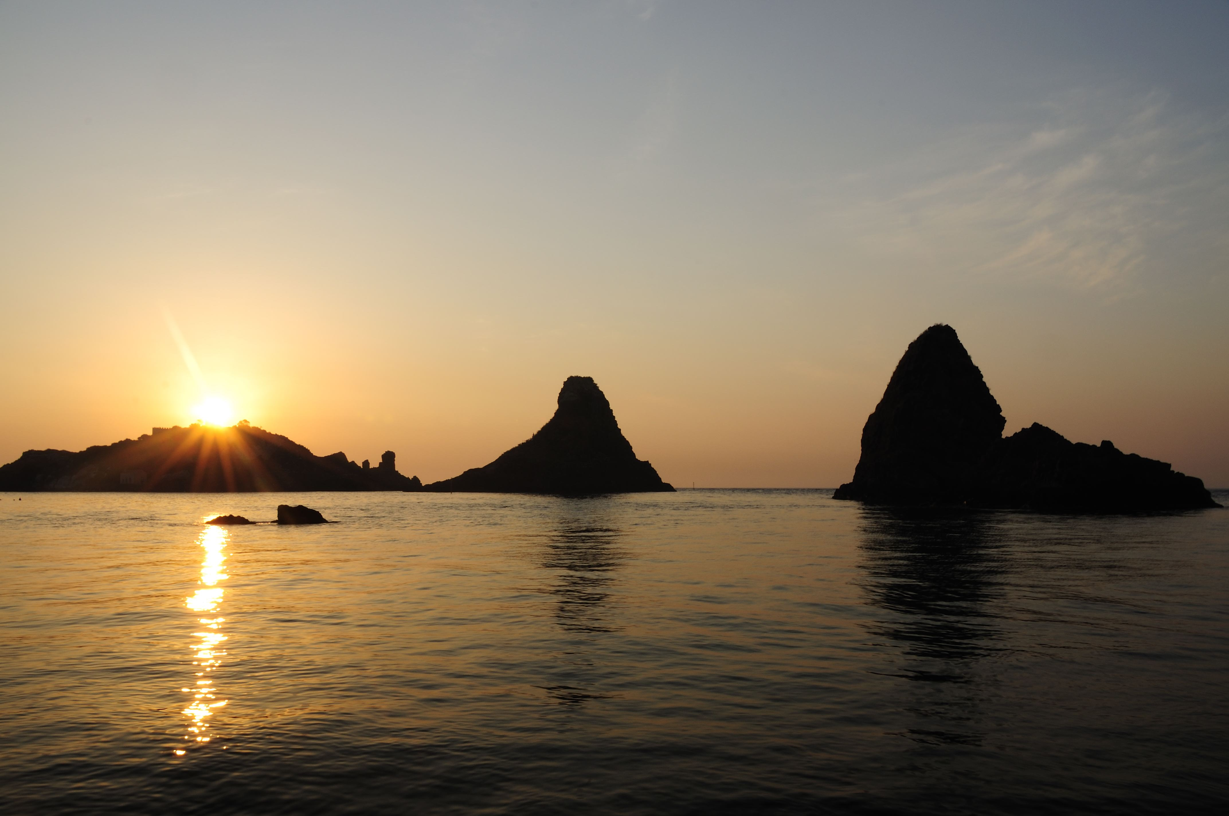 See more ... The Islands of the Cyclops Of the coast of Aci Trezza are three tall, column-shaped islands. According to local legend, these great stones are the ones thrown at Odysseus in The Odyssey. The islands are referred to as the "isole dei ciclopi" (islands of the Cyclops, or Cyclopean Isles) by locals. This compliments the notion that the Cyclops once had a smithy below Mount Etna, which looms over the village to the northwest. Aci Trezza is a town in Sicily, southern Italy, a frazione of the comune of Aci Castello, c. 10 km north of Catania, with a population of around 5,000 people. Located on the coast of the Ionian Sea, the village has a long history of maritime activity. Aci Trezza is a popular spot for Italian vacationers in the summer. The patron Saint of the town is St. John the Baptist. The Festa of San Giovanni is celebrated each year during the last week of June 24 in his honor. Le Isole dei Ciclopi Il panorama di Aci Trezza è dominato dai faraglioni dei Ciclopi: otto pittoreschi scogli basaltici che, secondo la leggenda, furono lanciati da Polifemo ad Ulisse durante la sua fuga. I faraglioni compaiono sugli stemmi dei comuni di Aci Castello, Acireale, Aci Bonaccorsi, Aci Catena. Poco distante dalla costa (a circa 400 m di distanza), è presente l'Isola Lachea, identificata con l'omerica Isola delle Capre e che attualmente ospita la sede di una stazione di studi di biologia dell'Università degli Studi di Catania.